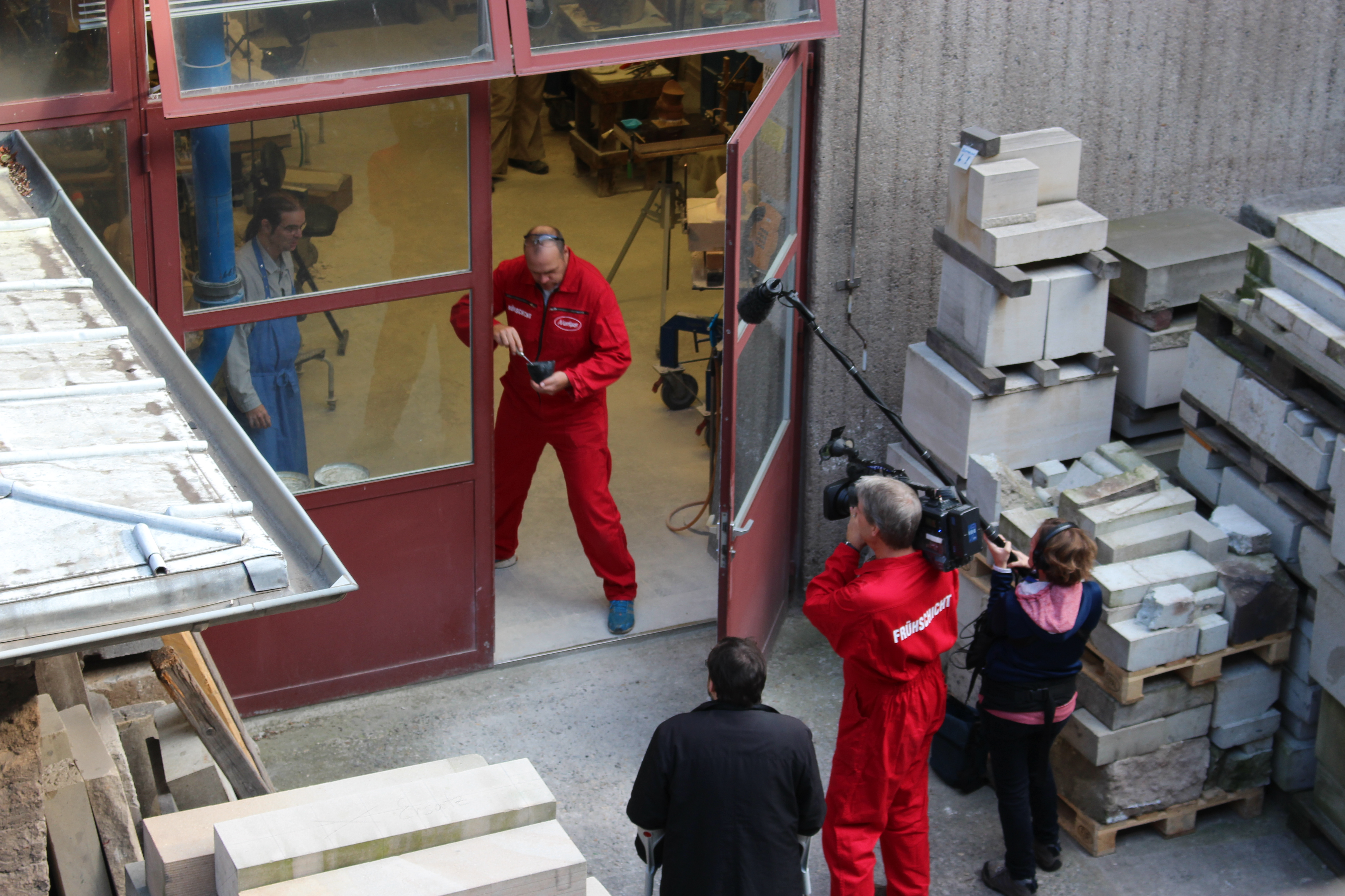 Team of the Frühschicht of a local television program in the workshop of the Cologne Cathedral taking the camera shots. Personality rights warning Although this work is freely licensed or in the public domain, the person(s) shown may have rights that legally restrict certain re-uses unless those depicted consent to such uses. In these cases, a model release or other evidence of consent could protect you from infringement claims.